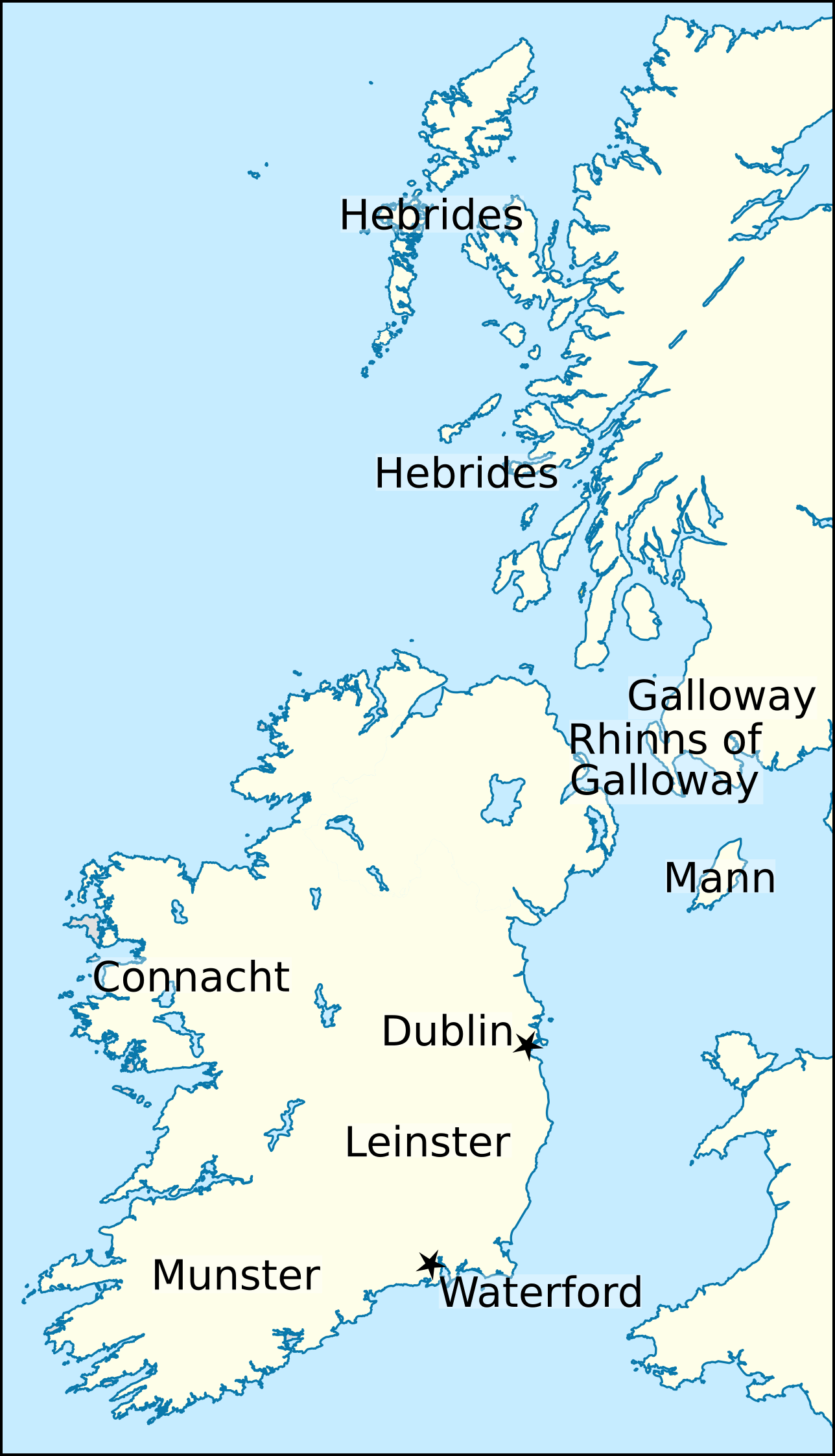 Locations relating to Gofraid mac Sitriuc and Fingal mac Gofraid, eleventh-century rulers of the Kingdom of the Isles.